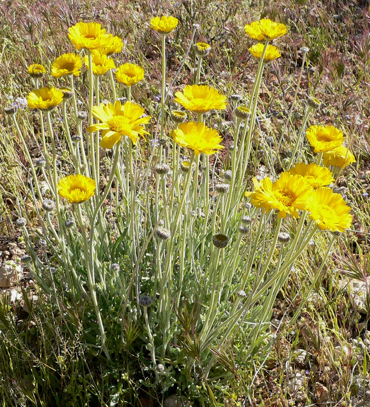 Photo of Baileya multiradiata (desert marigold) in Red Rock Canyon, Nevada